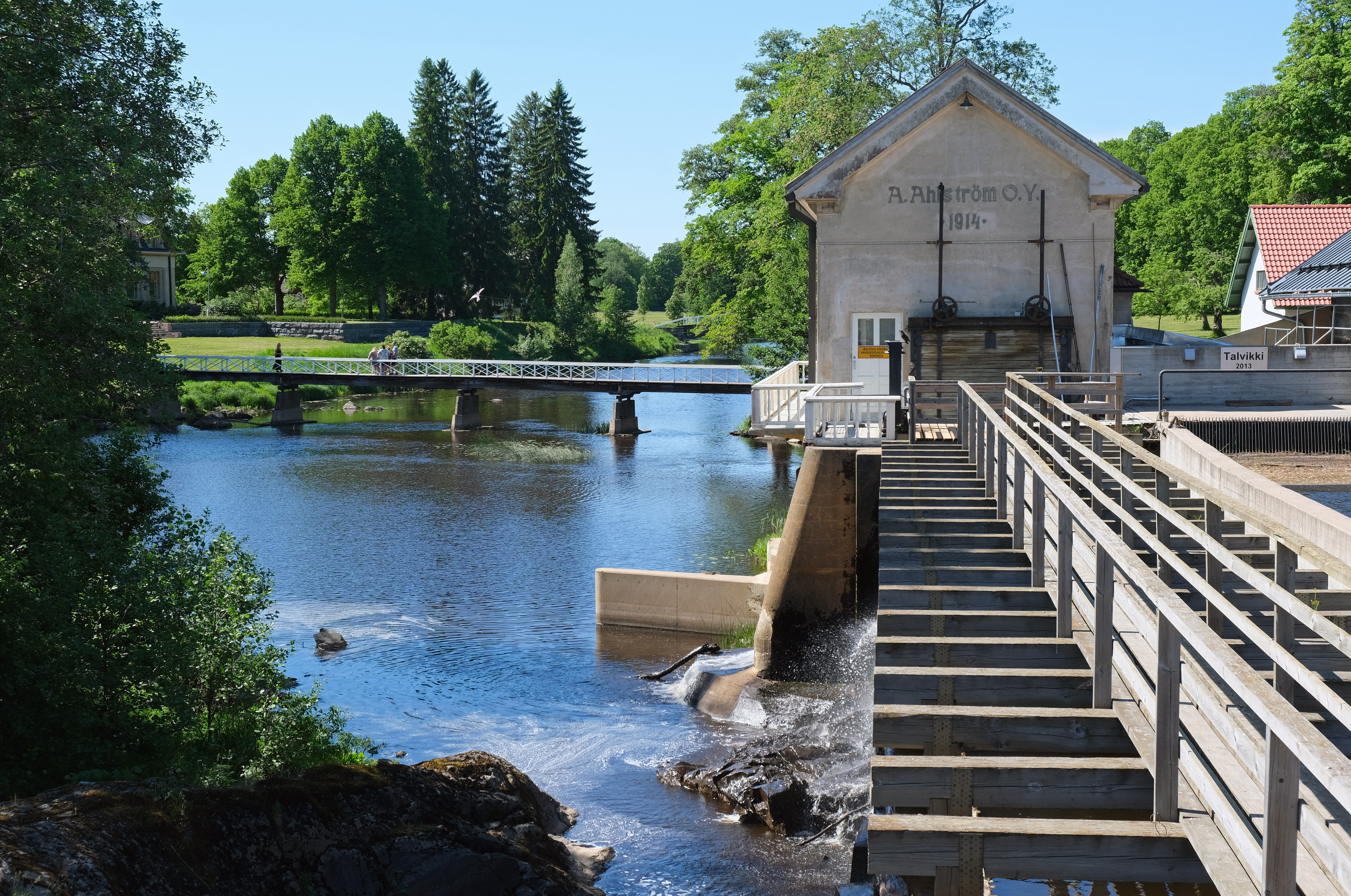 Makkarakoski Power Plant in the Noormarkku Ironworks, Pori, Finland.